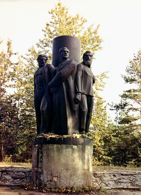 Sculpture by Indulis Folkmanis.